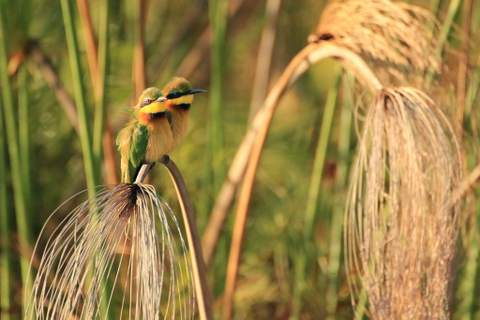 Little Bee-eater Merops pusillus, Botswana